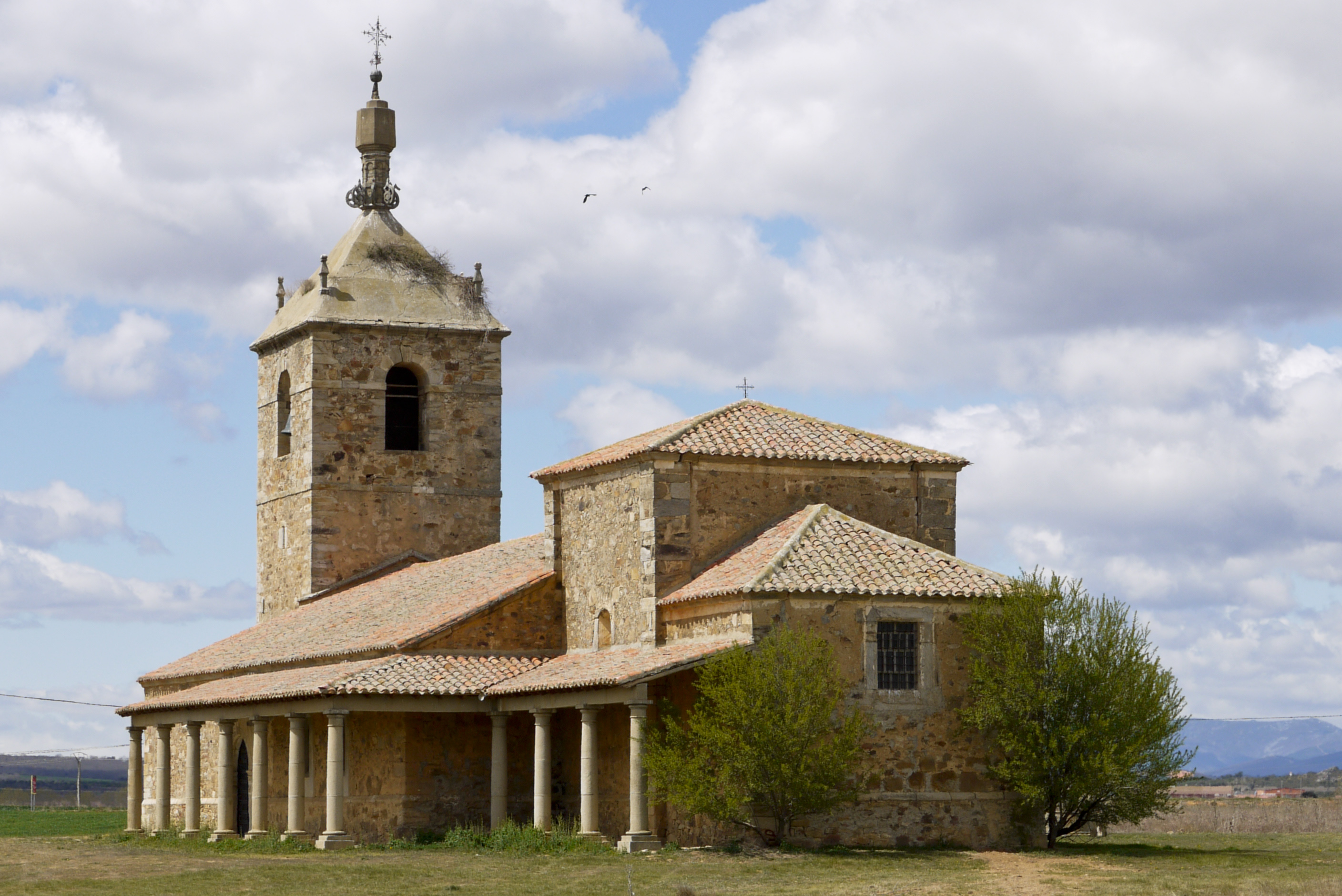 Sanctuary of Virgen del Campo in Rosinos de Vidriales, Benavente, Zamora, Spain